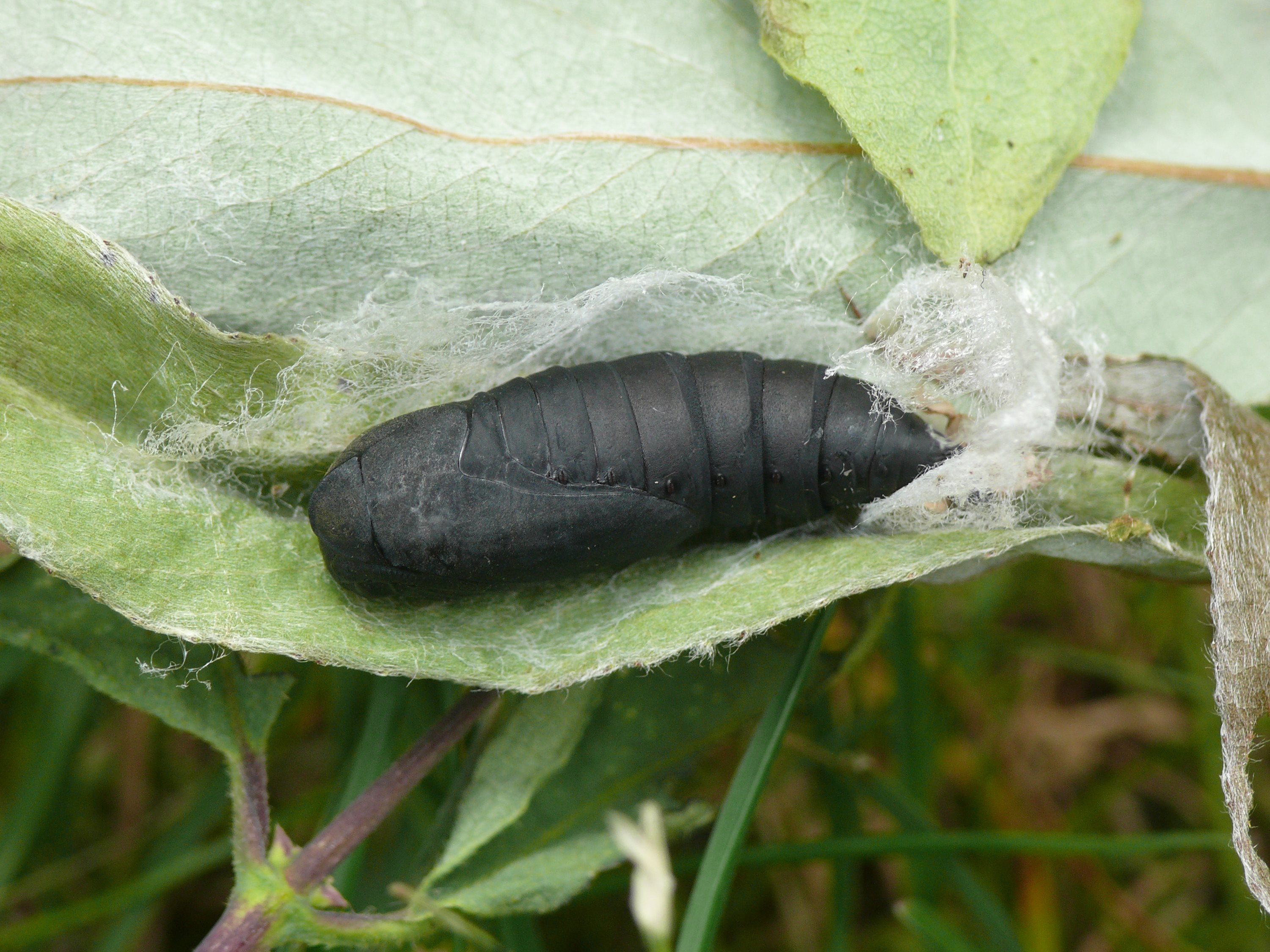 Pupa of The Herald